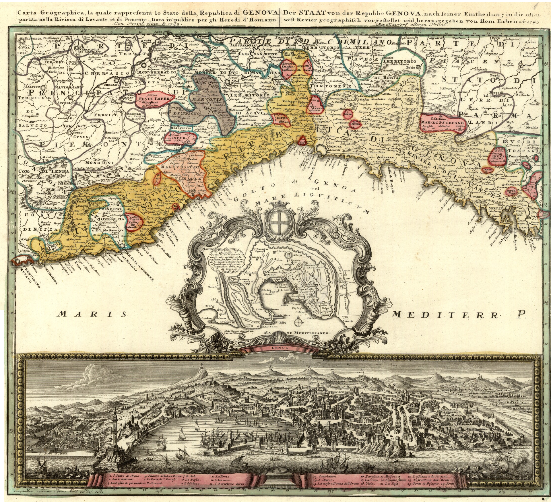 Map of the Republic of Genoa (in dark and pale yellow) published by Homann's Heirs (Homann Erben) in 1743. The island of Corsica, which belonged to Genoa from the late 13th century until 1768, is not shown. The areas in pink and other colors were not part of the Republic. Homann's Heirs often published maps actually created by Johann Baptist Homann, who died in 1724. It is possibly the case here.